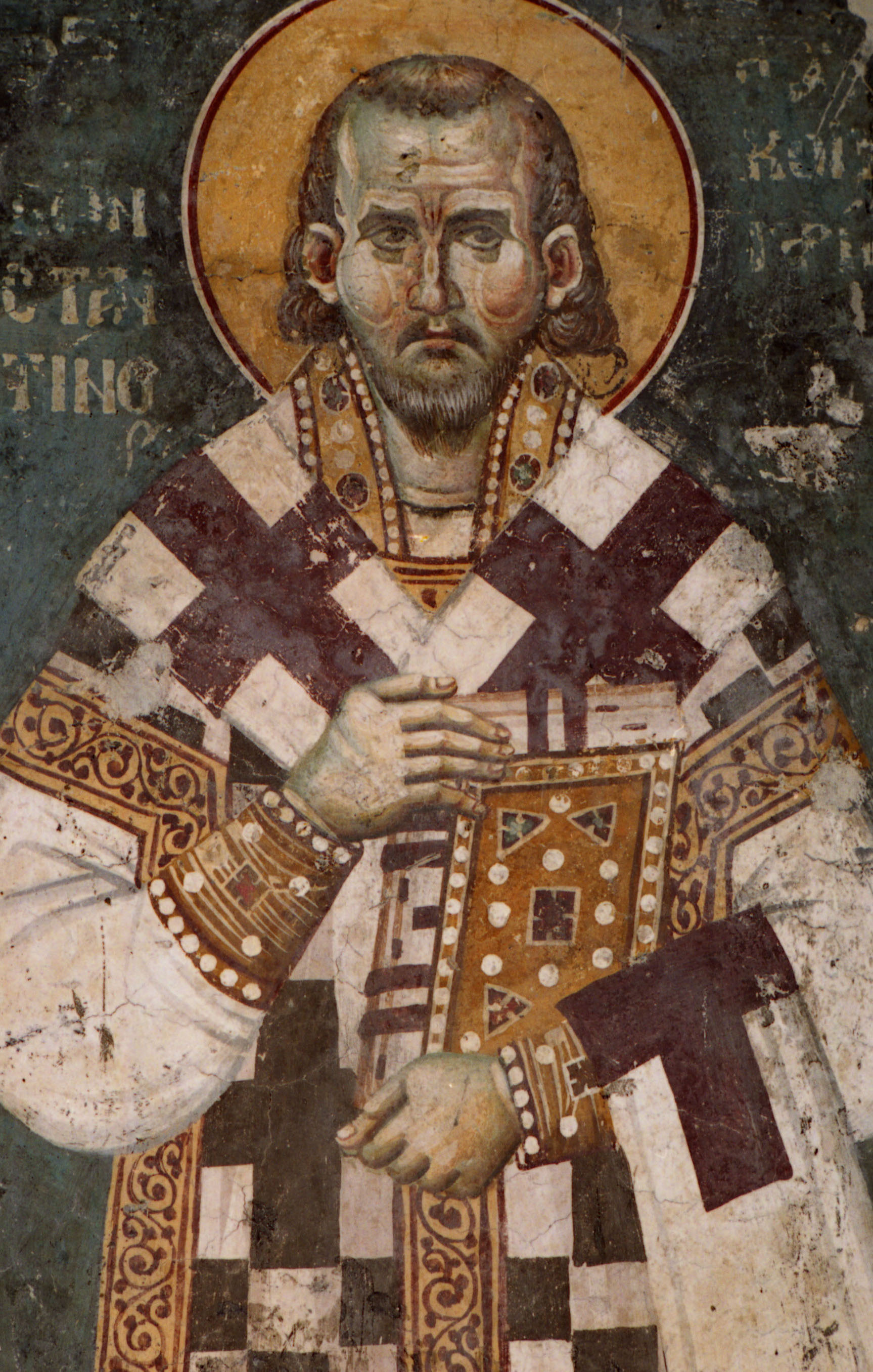 Frescos in the Church of the Theotokos Peribleptos, Оhrid Macedonia